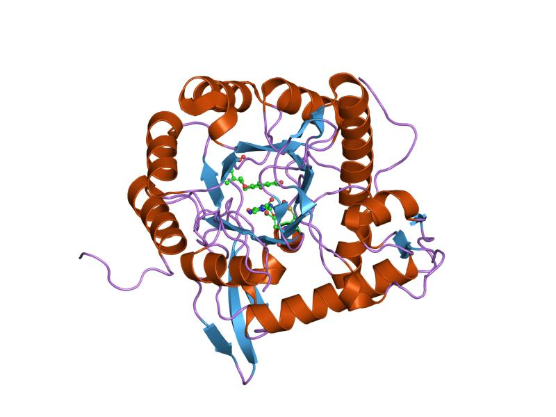 Cartoon representation of the molecular structure of protein registered with 1meh code.